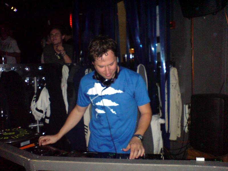 Tonka playing at the Sikamikanico night club in Oslo, Norway at September 8th 2007.